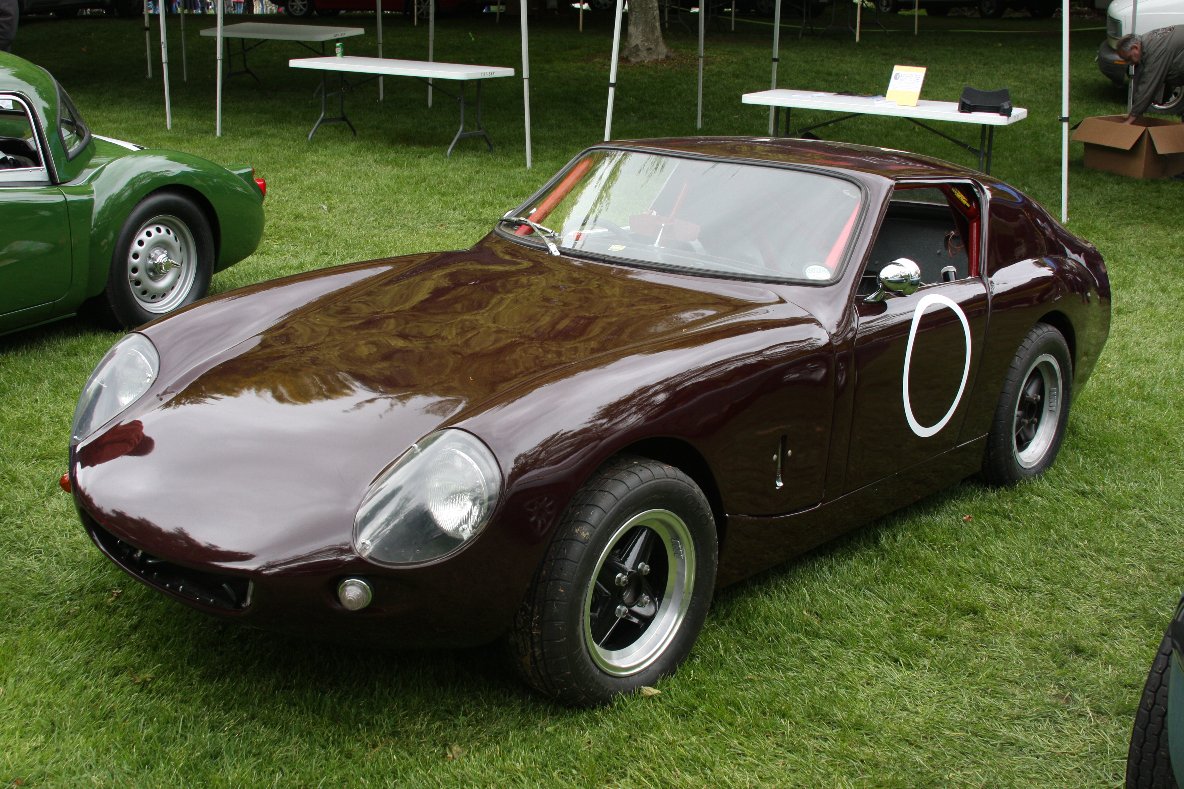 Lenham GT - based of a 1961 Austin Healey Sprite. Now sports a 1275cc engine.